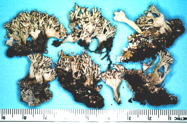 Cladonia chlorophaea (Flörke ex Sommerf.) Spreng., 1827 (photograph of a herbarium specimen) Growing on a stump in a moist area along Route 40, 0.5 mile E of Route 144 (W of Hancock), Washington County, Maryland, USA; collected and identified by A. Norden and B. Norden (No. L-19, 24 Jun 1974); specimen is now in the Lichen Herbarium of the New York Botanical Garden. (millimeter scale)